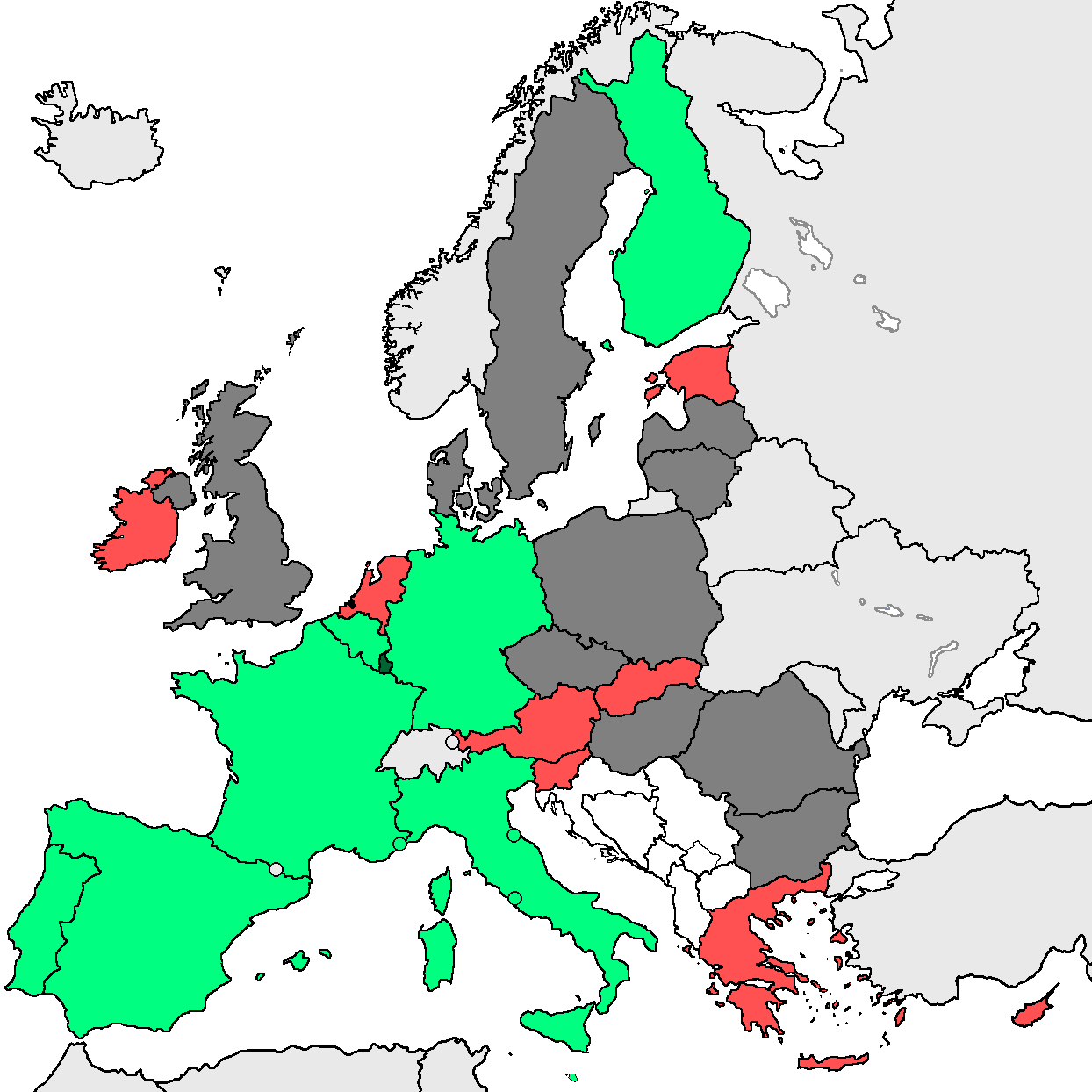 Map of eurozone member states which printed 2€ commemorative coin in 2011